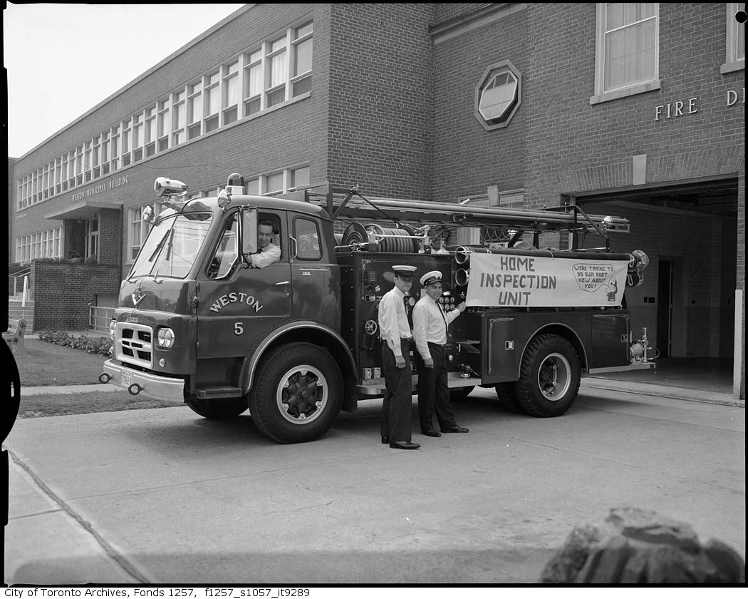 Photographer: Alexandra Studio ca. 1964 City of Toronto Archives Series 1057, Item 9289